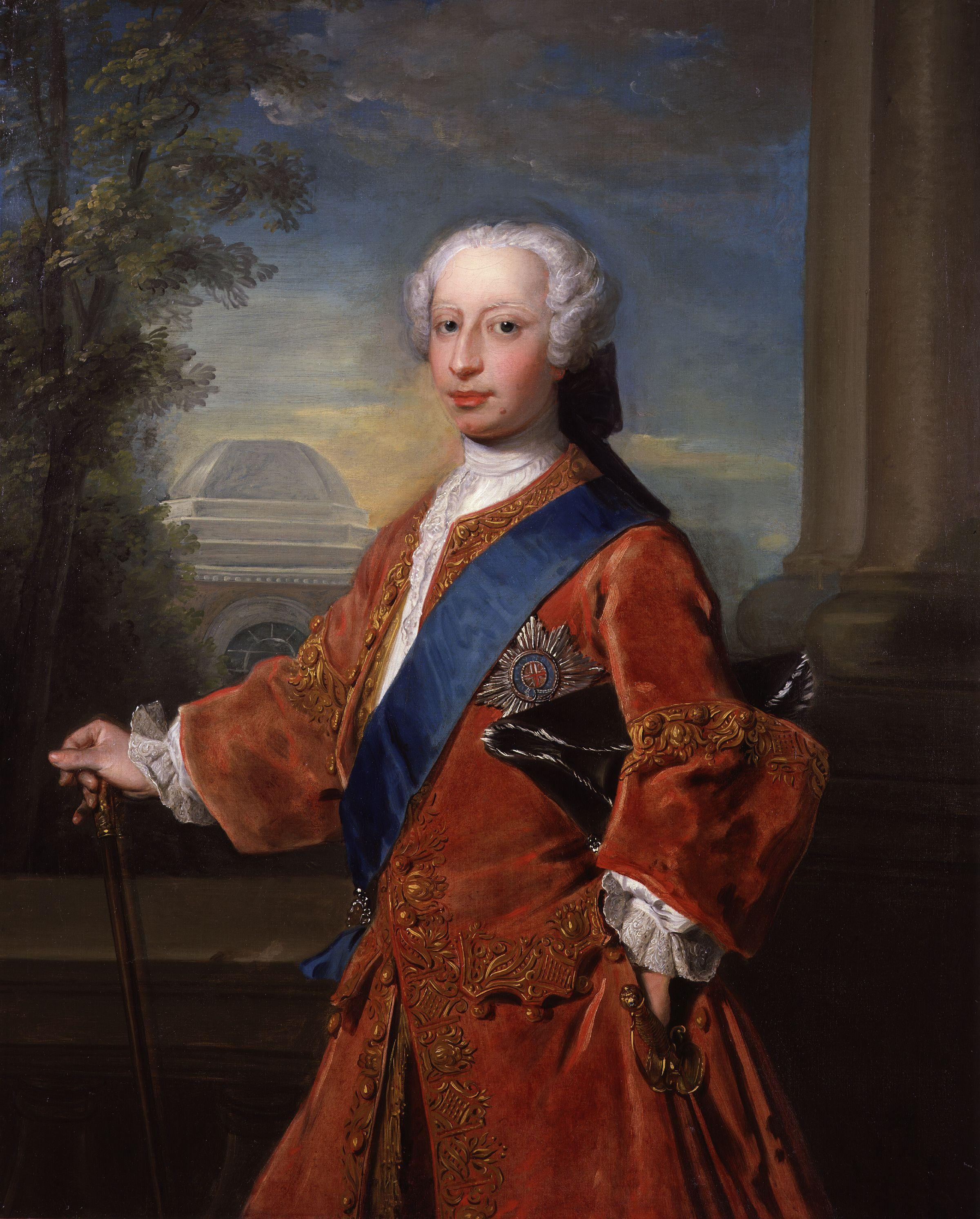 All images in this batch have been confirmed as author died before 1939 according to the official death date listed by the NPG.